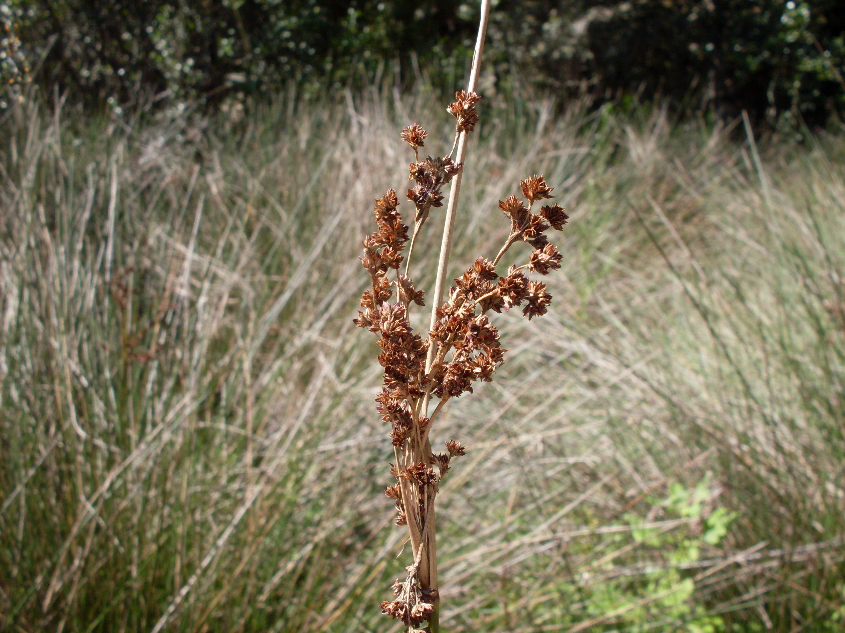 Sea Rush, Juncus kraussii. Paruna Reserve, Como, NSW Australia, March 2009. Thanks to Tony for the ID.